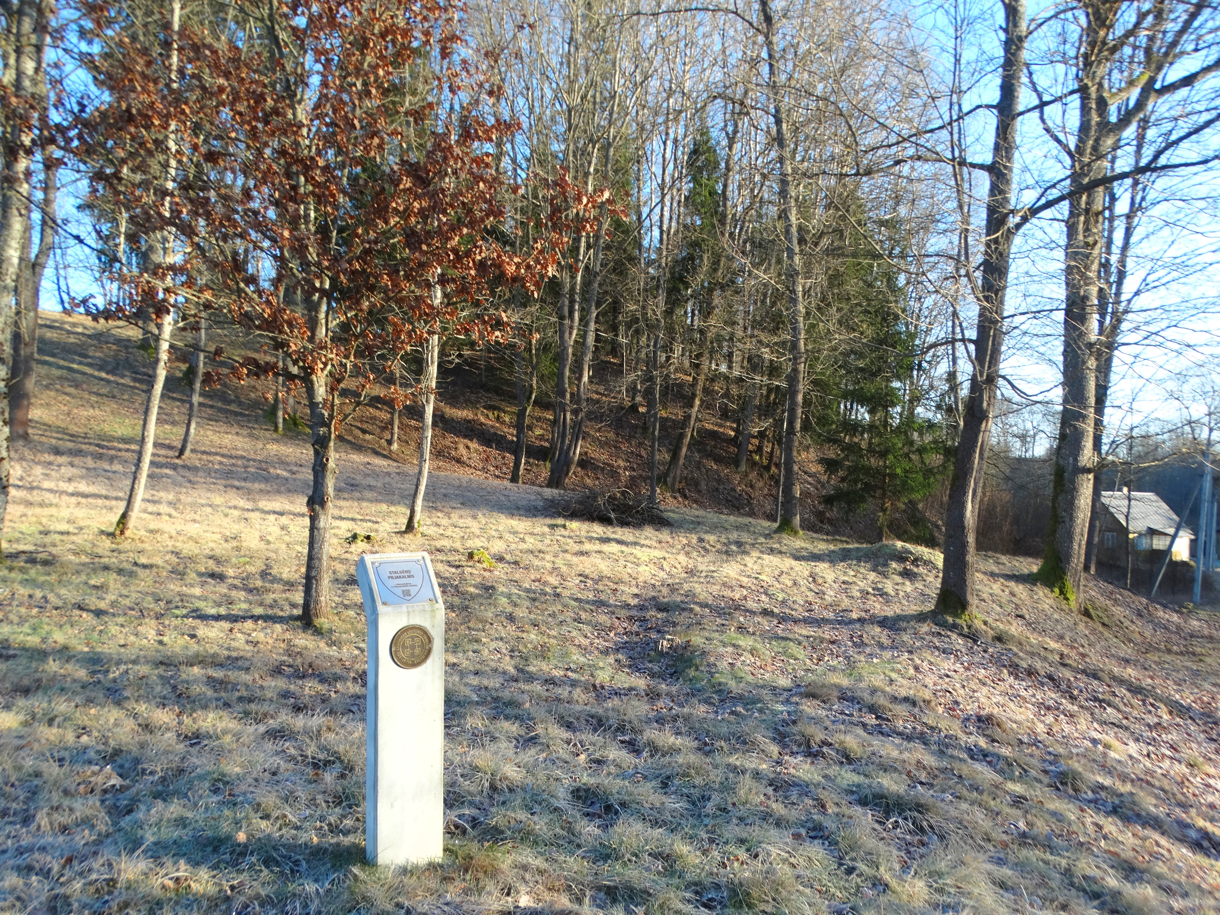 Stalgėnai hillfort, Plungė district, Lithuania